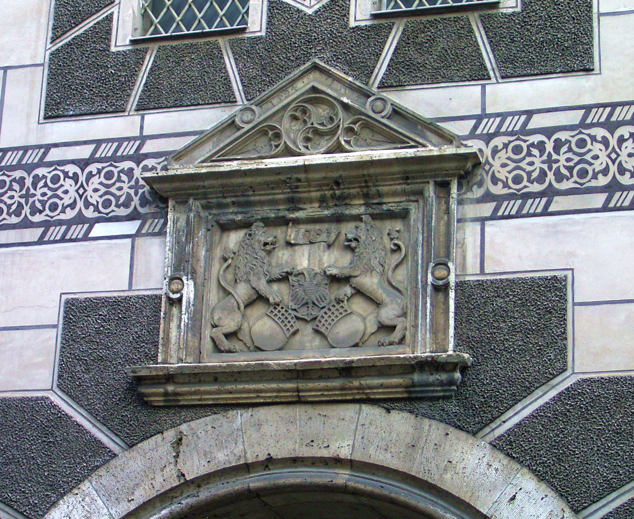 Kornhaus Ulm, southern portal